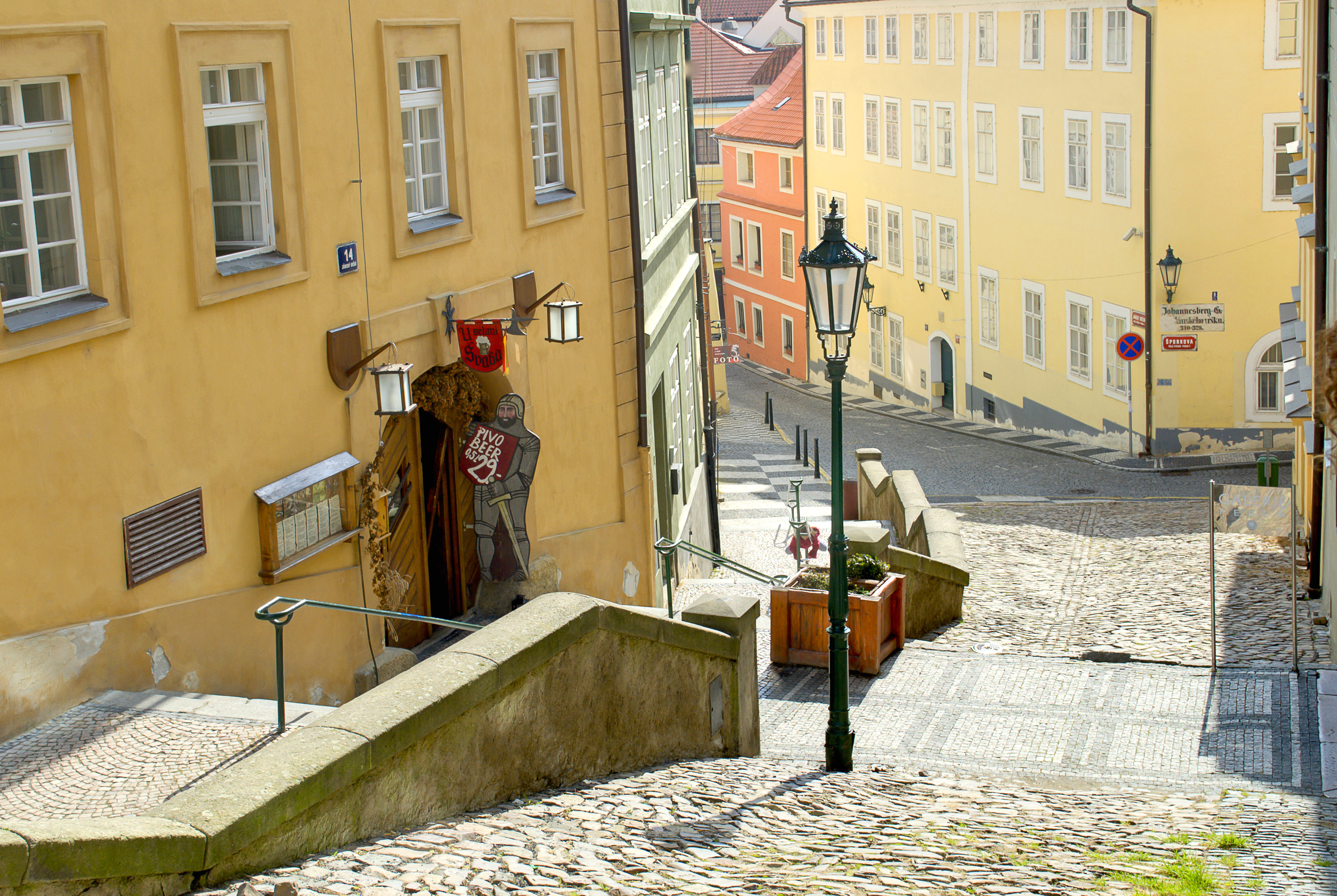 Street in Malá Strana